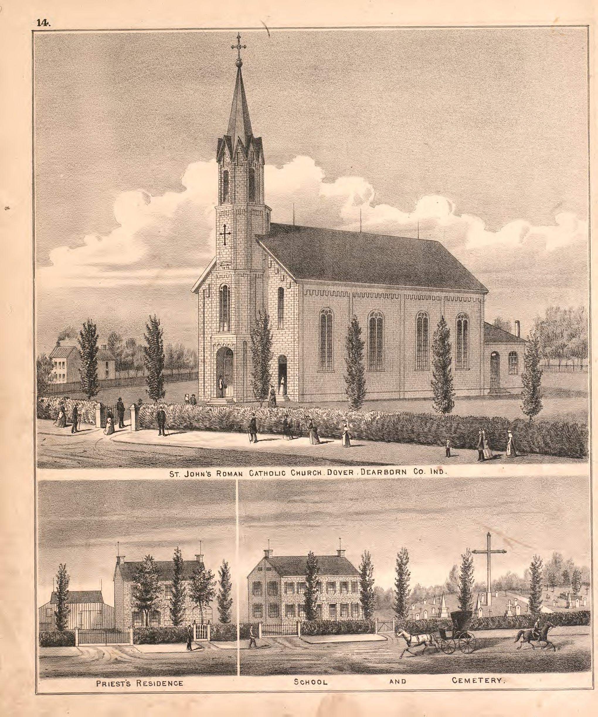 LeGear. Atlases of the United States, 4513 Available also through the Library of Congress Web site as a raster image. Includes index and brief history of Dearborn County. LC copy imperfect: Front board and rear board separated from binding. Vendor: John Carbonell (eBay auction) Acquisitions control no. 2006-122